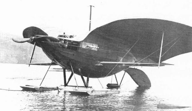 Goupil Duck (1917) on floats as built by Curtiss